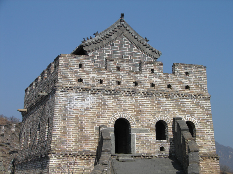 A tower at the Mutianyu section of the Great Wall of China.